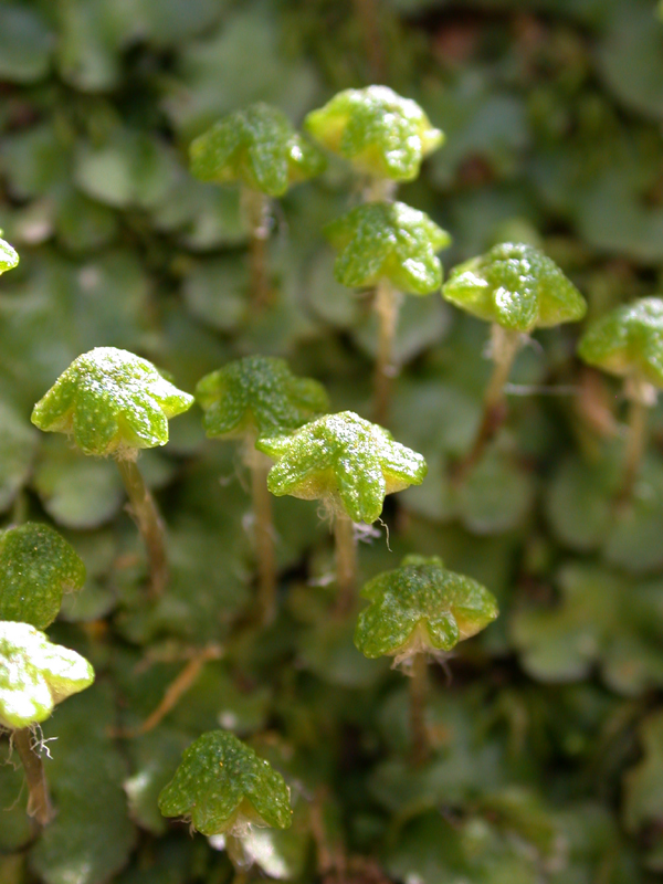 Reboulia hemisphaerica (L.) Raddi, Wadi Yagur, Mount Carmel, Israel, March 21, 2008